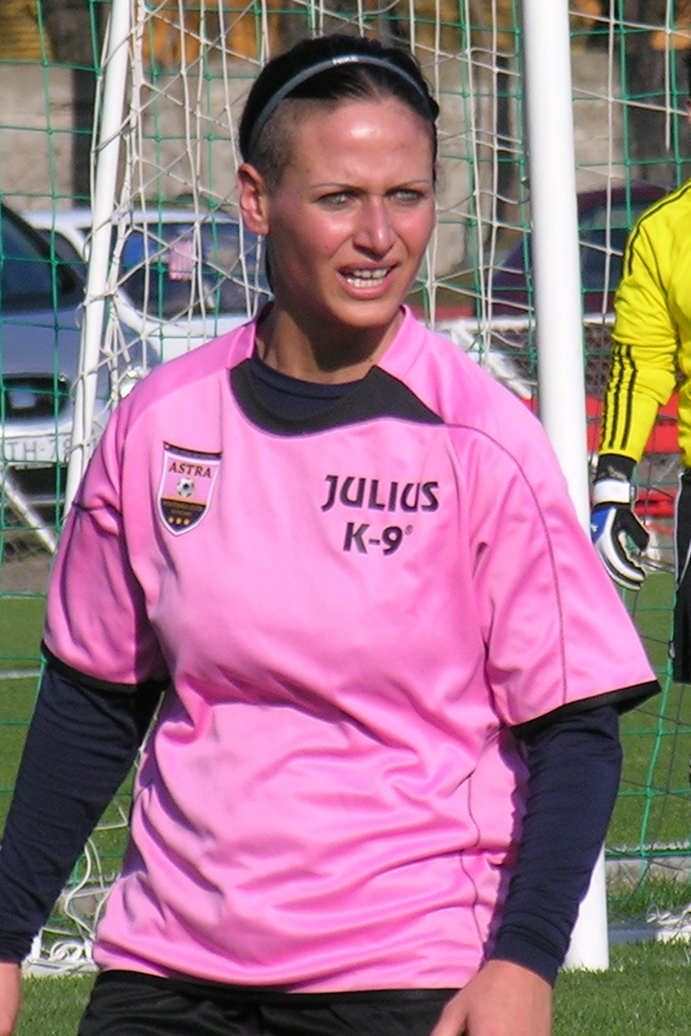 Katalin Üveges, Hungarian football player Event: Astra-Szegedi AK 1-2